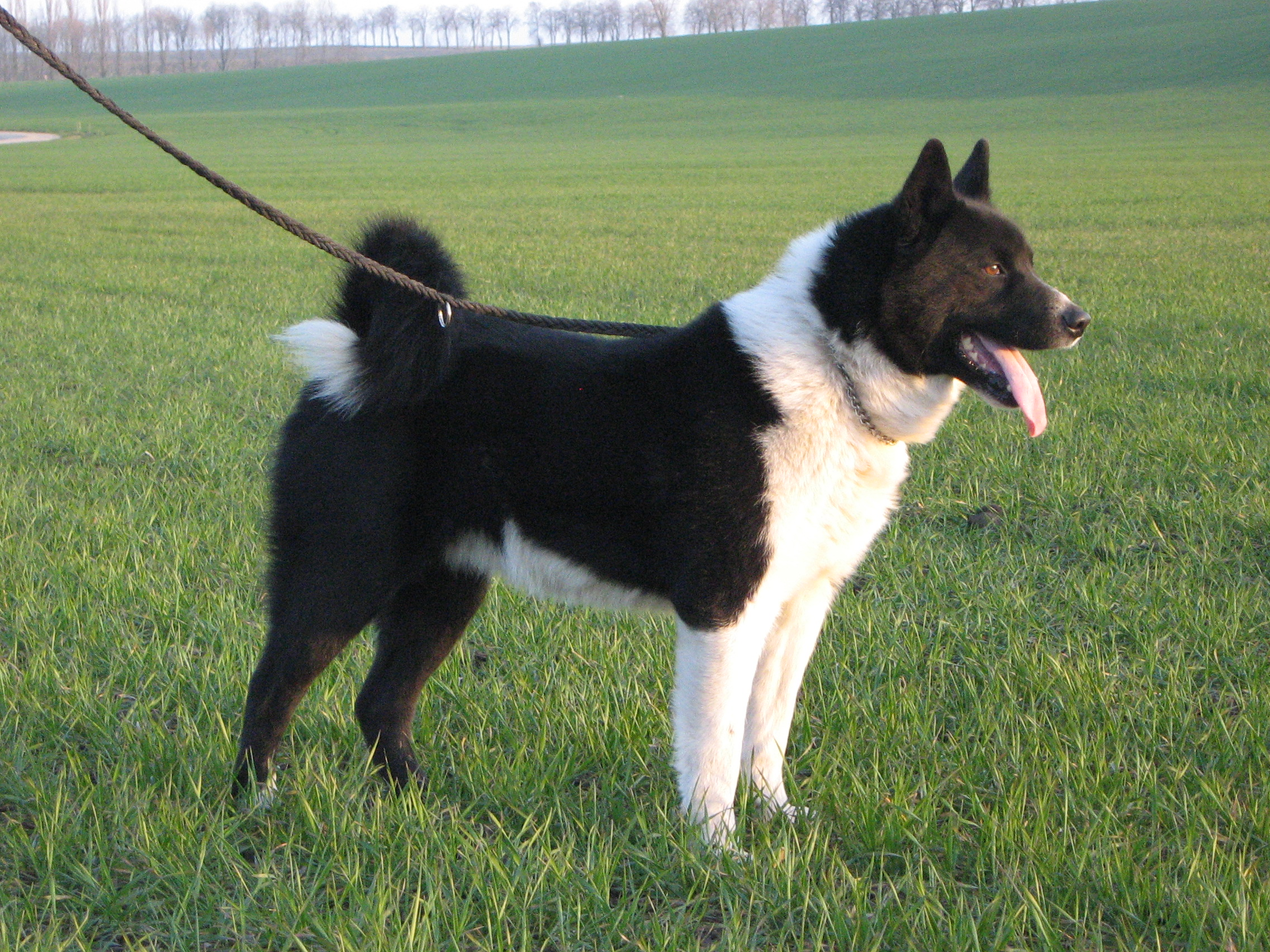 Karelian bear dog - Dunaj Wilczy Las Norsk (bokmål): Karelsk bjørnehund - Dunaj Wilczy Las